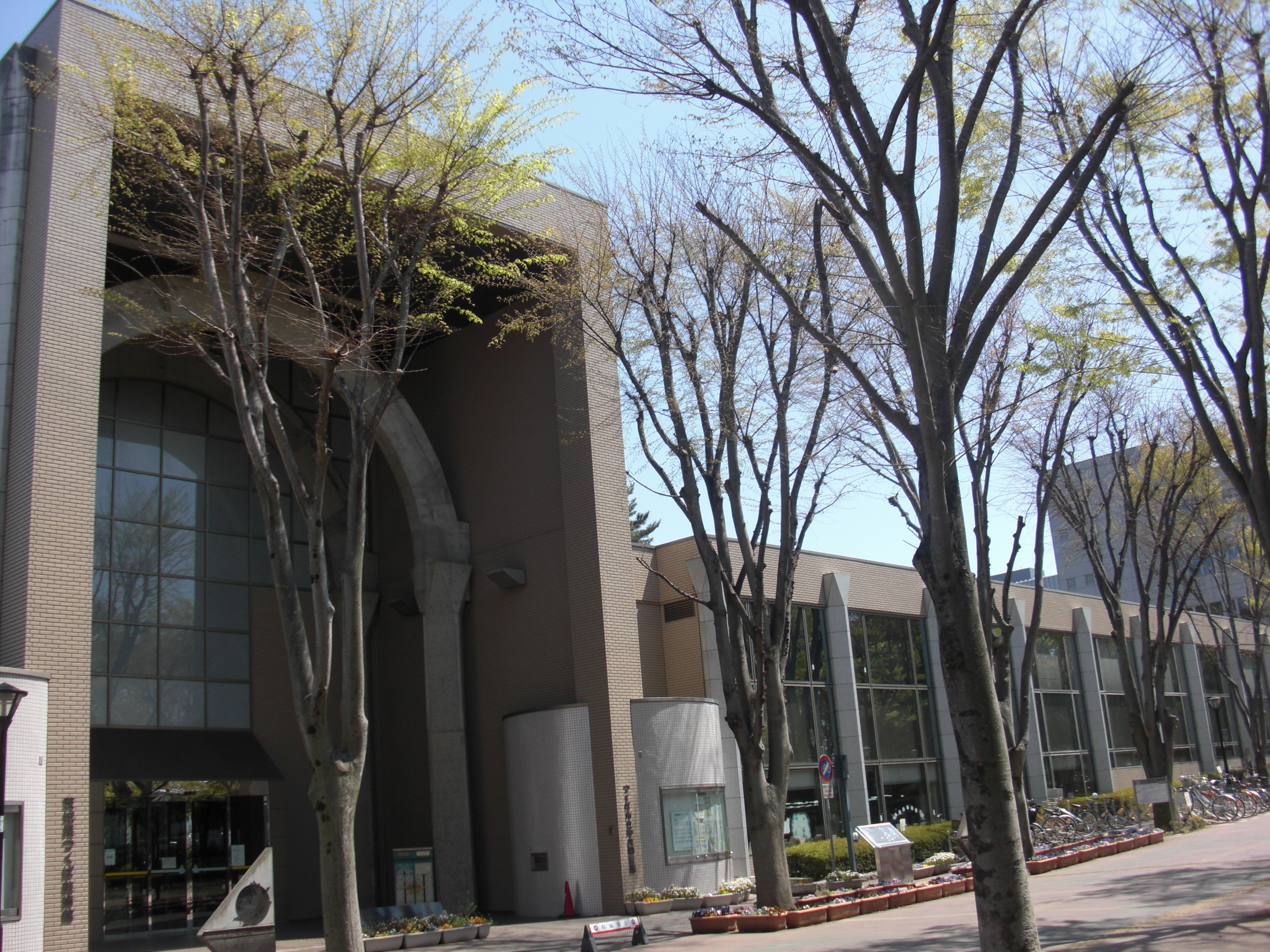 This is the Tsukuba public Library, which is in Tsukuba, Ibaraki, Japan.